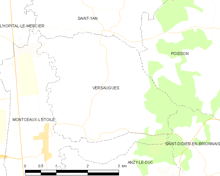 Map of French municipality